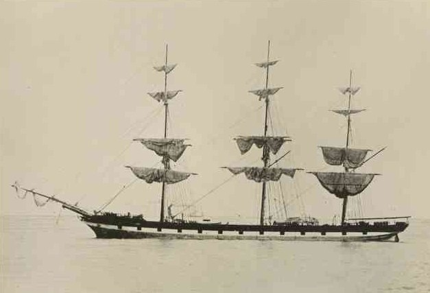 The iron ship 'City of Hankow', 1195 tons, at anchor.